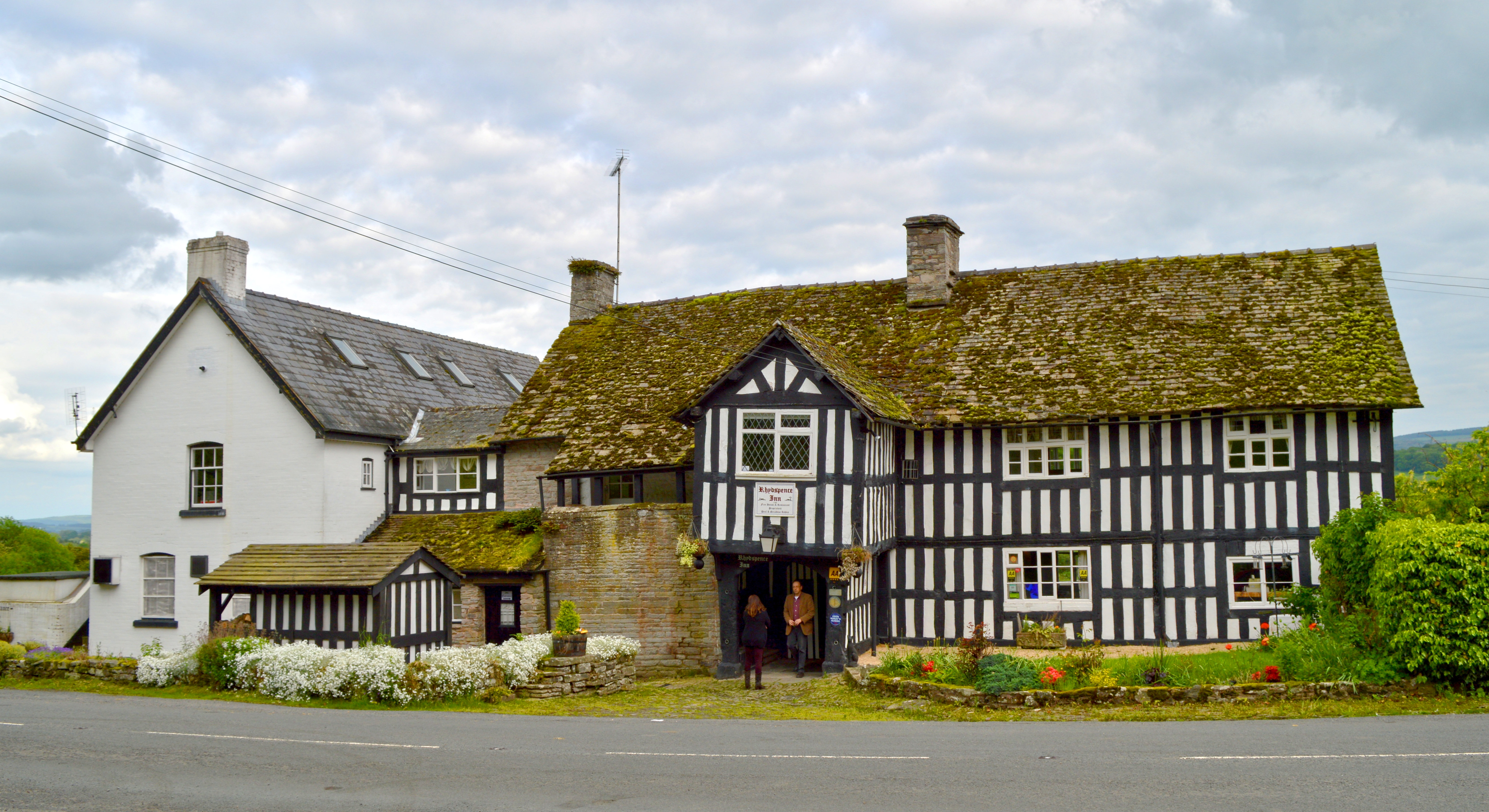 The Rhydspence Inn: Ancient hostelry, right on the border.